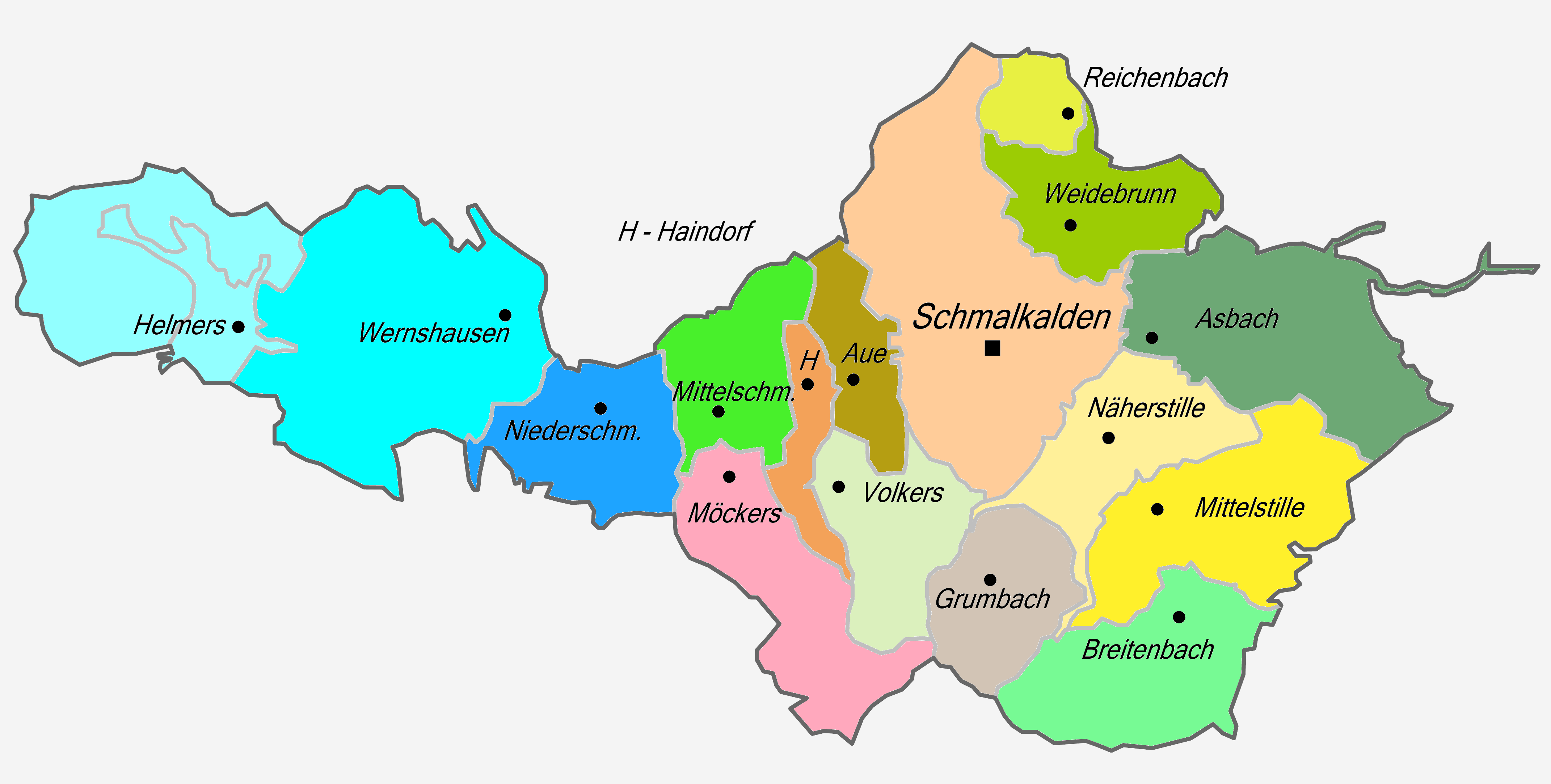 District-Maps of Schmalkalden